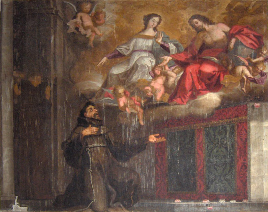 The Miracle of the Porziuncola